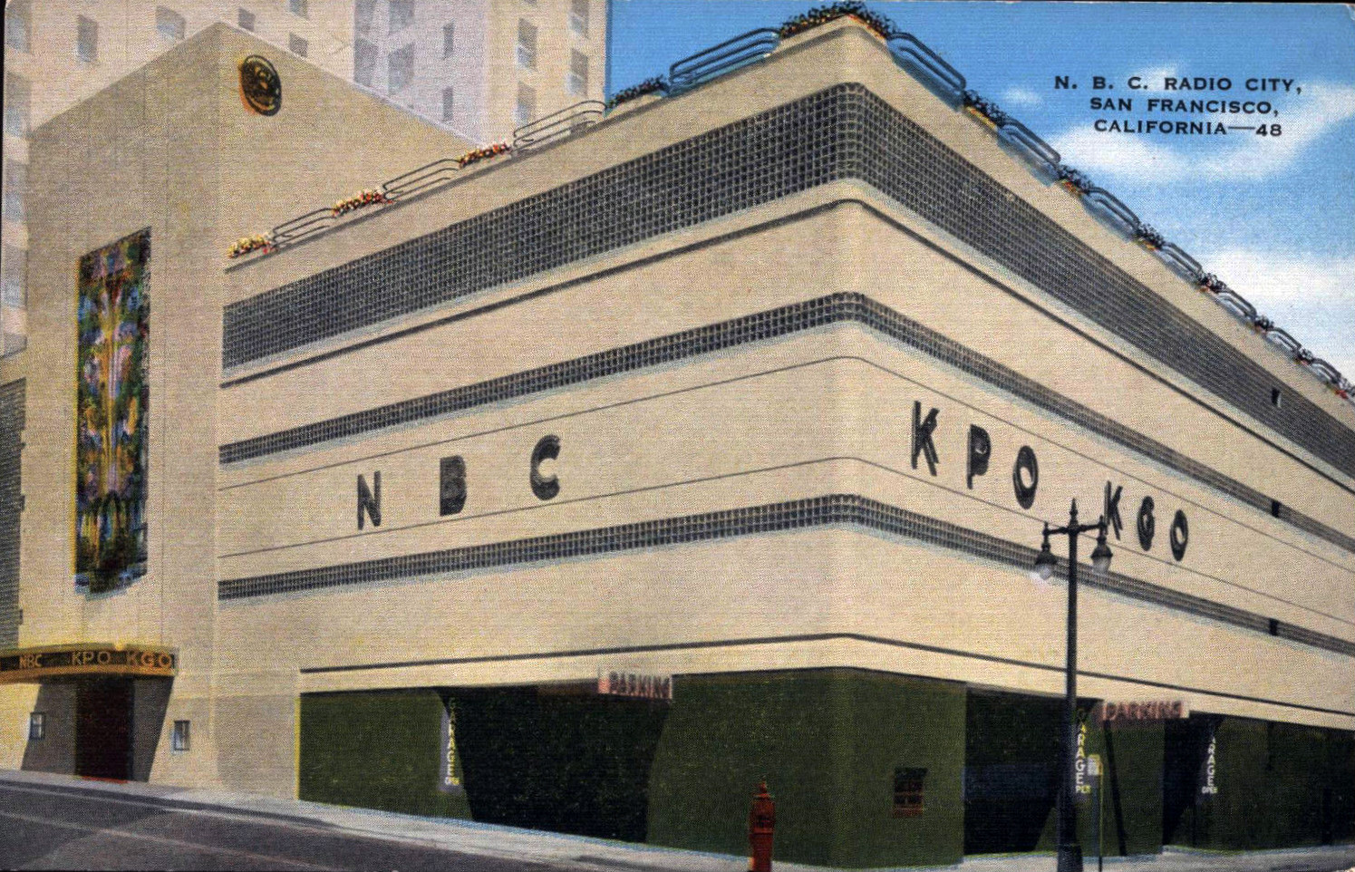 Postcard photo of NBC Radio stations KPO and KGO in San Francisco. The building shown was once referred to as Radio City West. However, NBC moved most of its radio programs to a building they built in Hollywood, naming that Radio City West. NBC did not own any radio stations in the Los Angeles area when the decision was made to move many radio shows to Hollywood. Still, the network went forward with the plan to construct the building seen here in 1941.